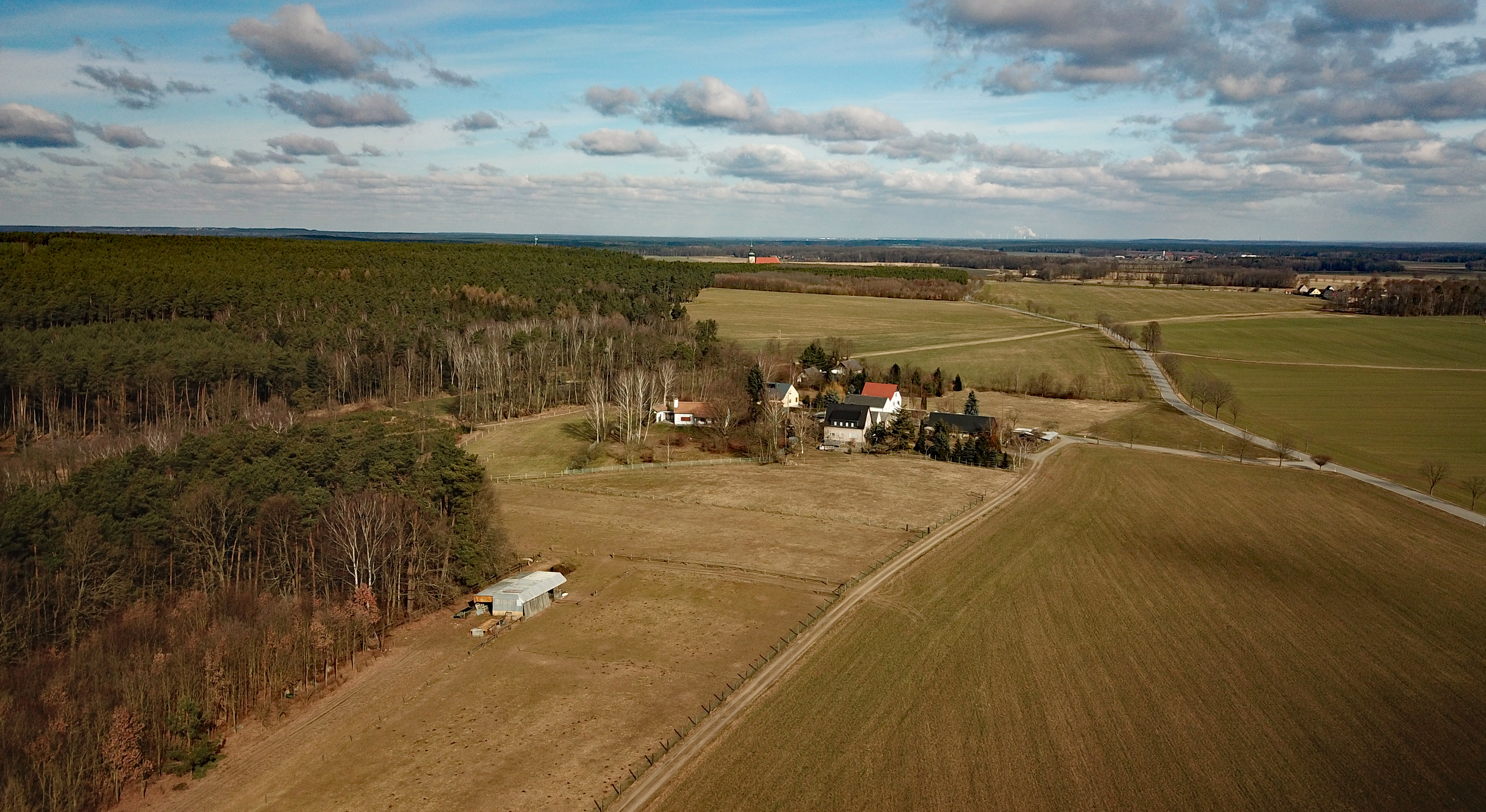 Dreihäuser (Räckelwitz, Saxony, Germany) Hornjoserbsce: Powětrowy wobraz Hornjeho Hajnka.